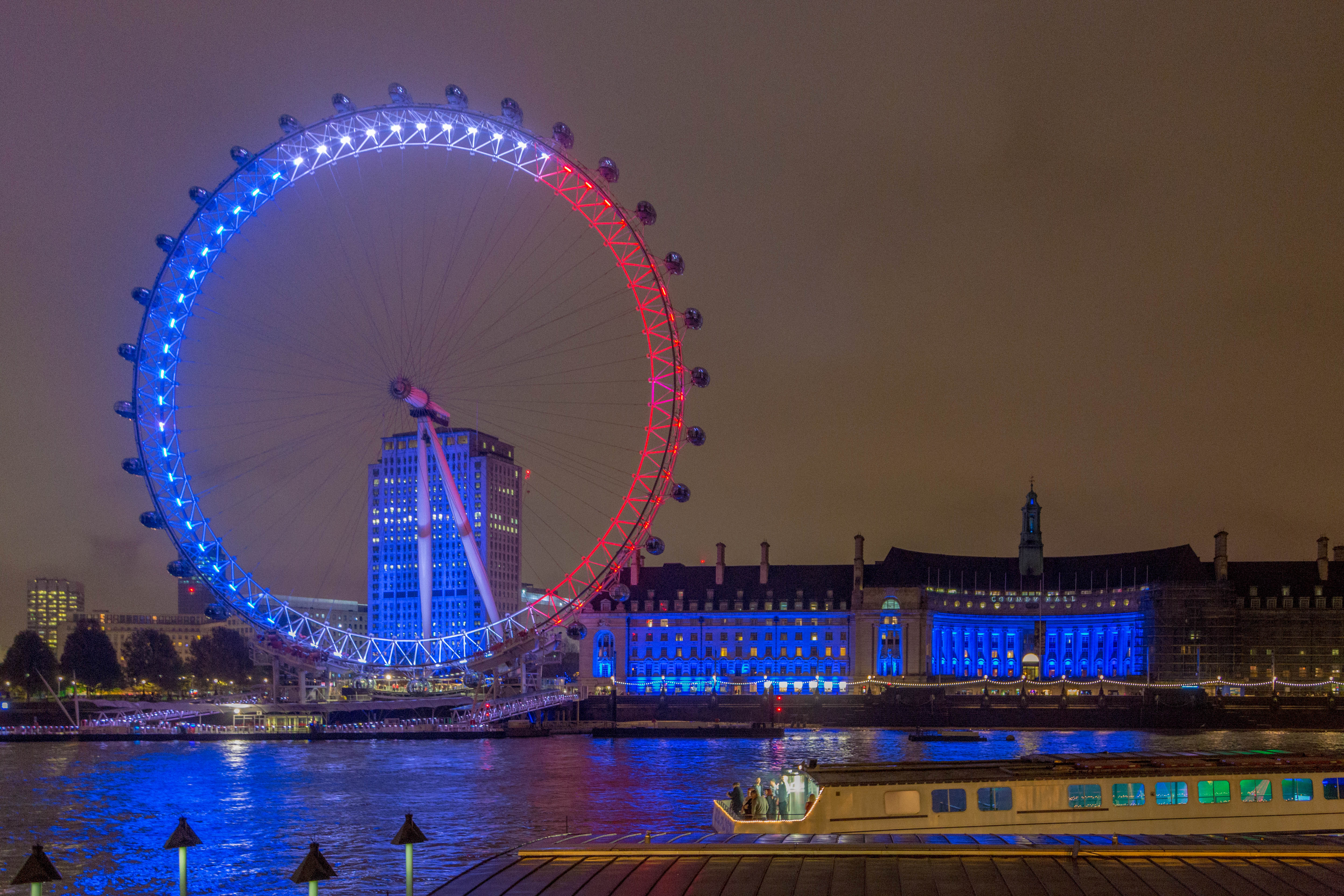 London Eye in French flag colours after Paris attacks